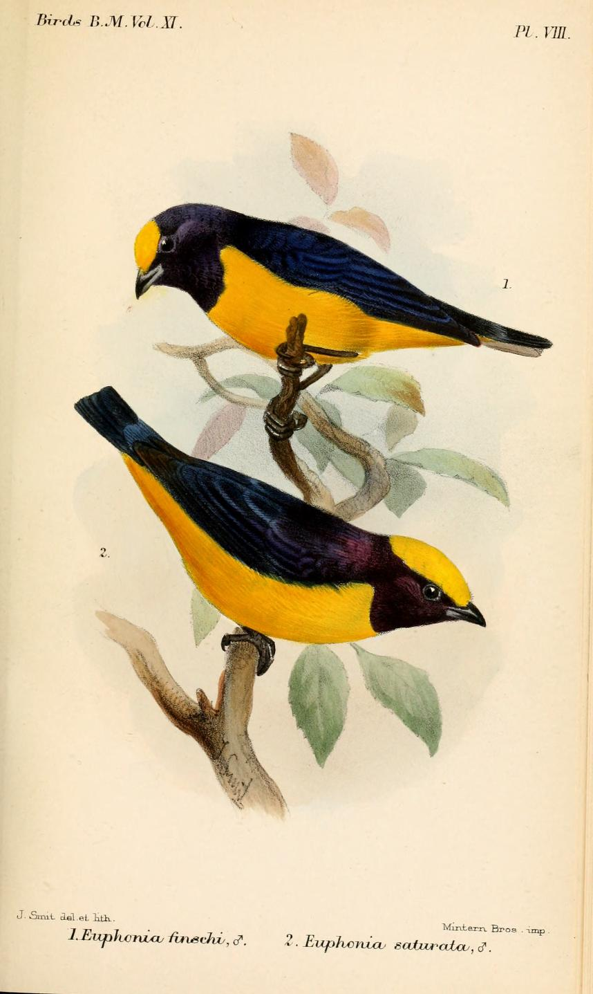 Euphonia finschi Finsch's Euphonia (above), and Euphonia saturata Orange-crowned Euphonia (below).